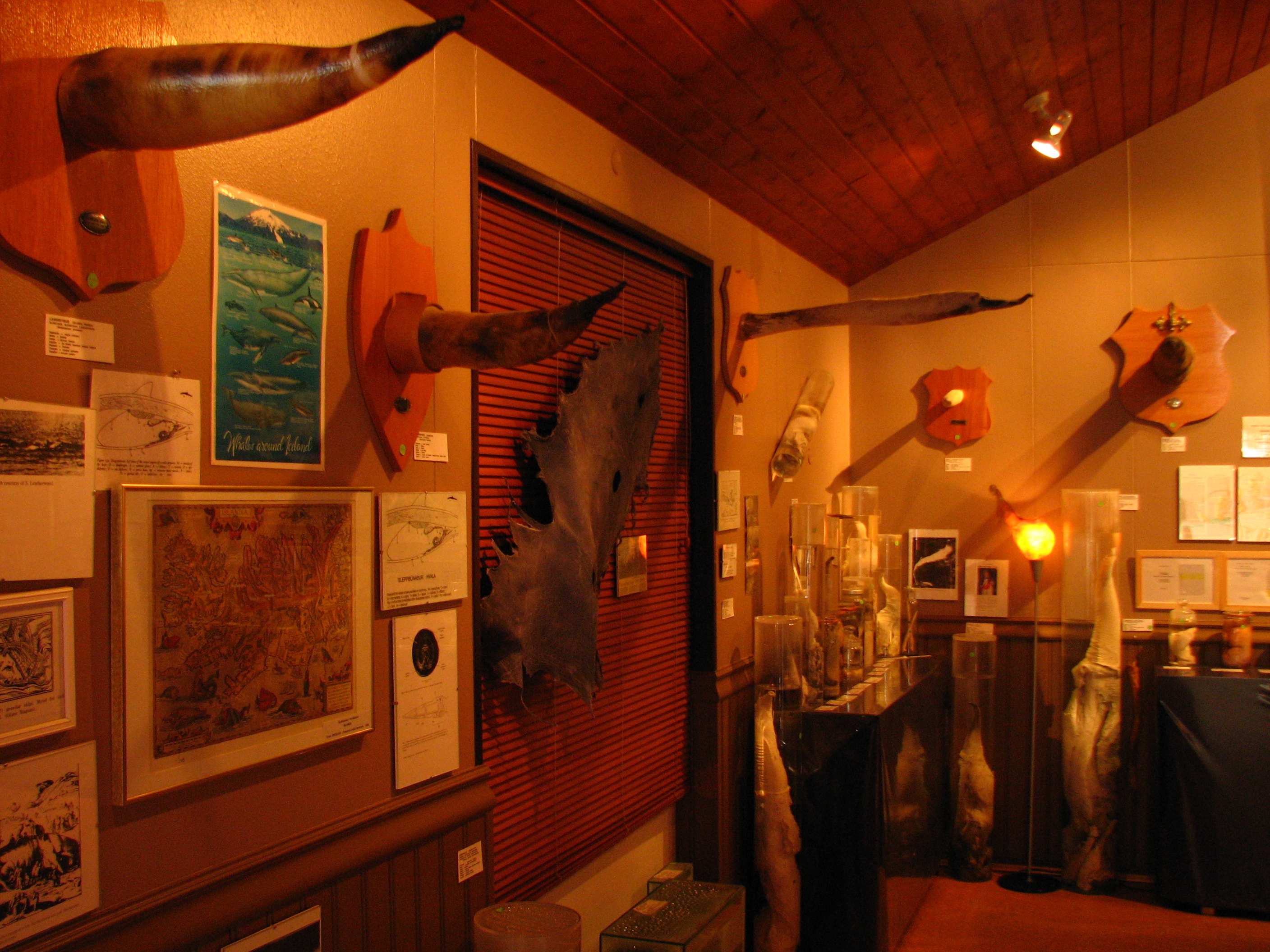 Icelandic Phallological Museum, H�sav�k, penis, road trip, 2008-08 -- Iceland 1st Anniversary Trip